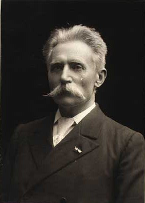 Christian Lehmann Pagh (1841-1912), Danish politician, MP